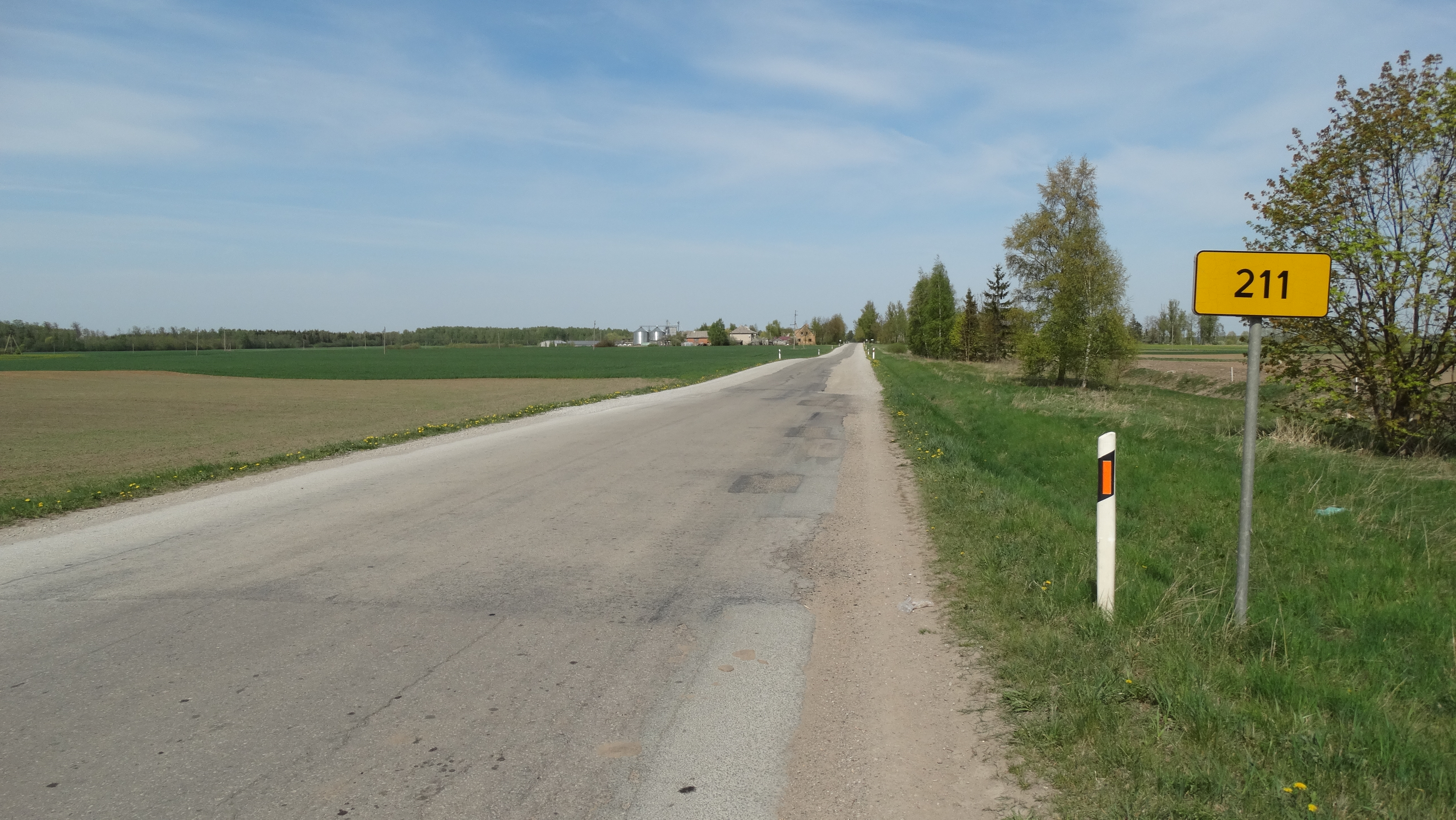 Road 211 by Linkuva, Pakruojis District, Lithuania